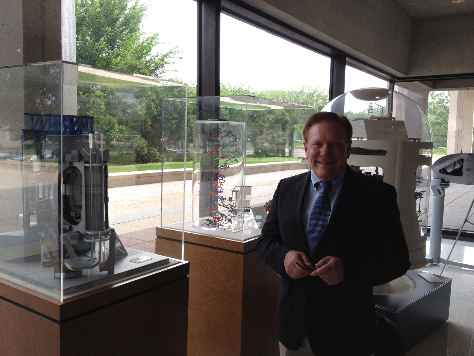 William F. Martin with ITER Display at US DOE HQ